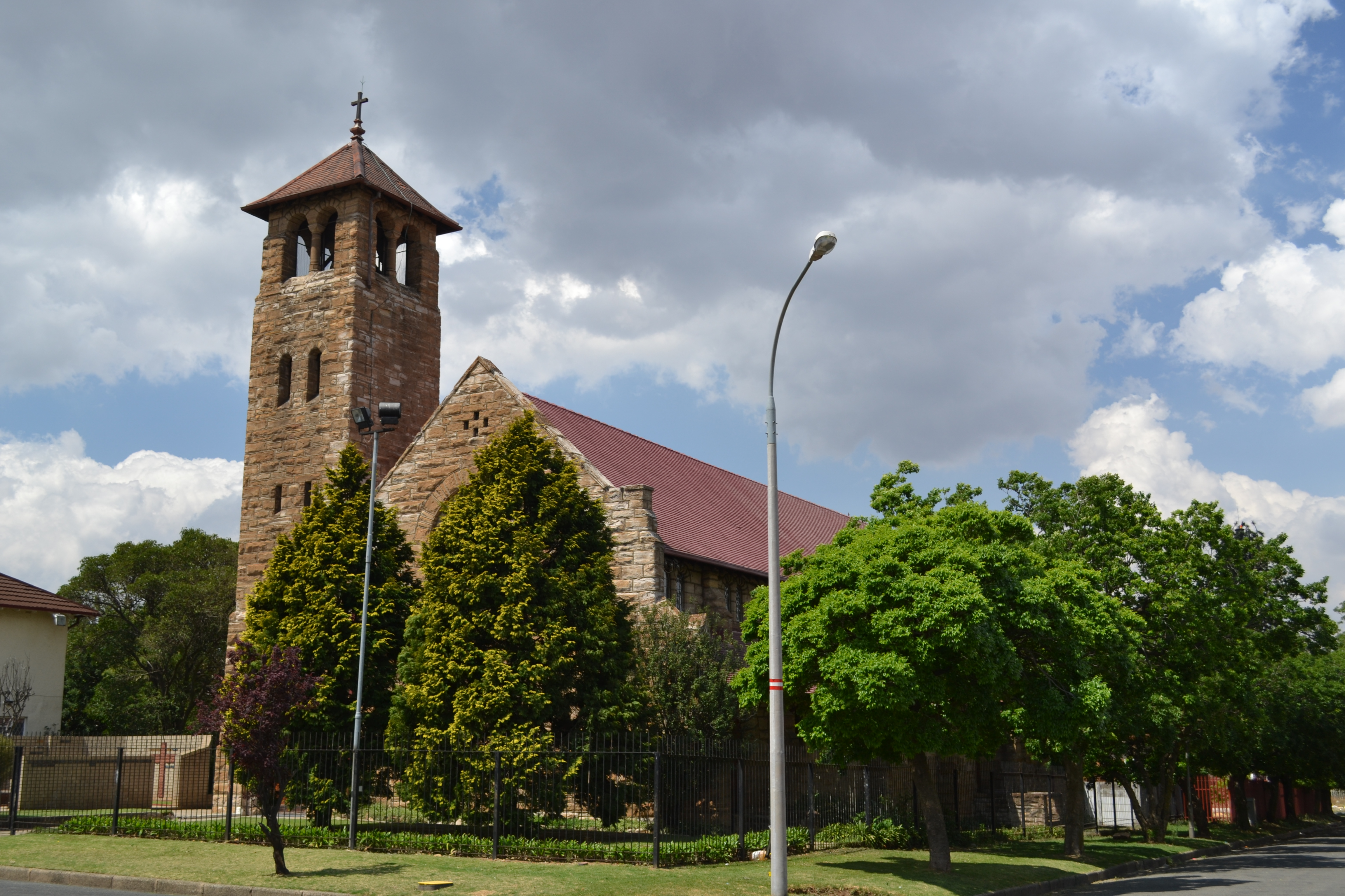 St Michael and All Angels Church, Plein Street, Boksburg South Africa This media shows a South African Protected Site with SAHRA file reference 9/2/209/0007.